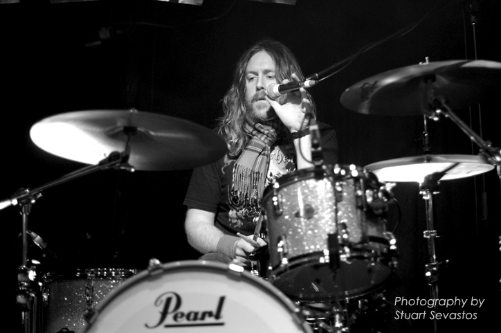 Kram @ Amplifier Bar (21/8/2009)